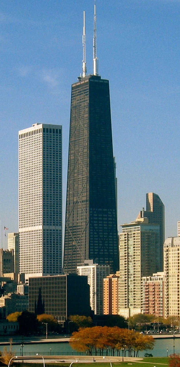 The John Hancock Center, Chicago, IL.